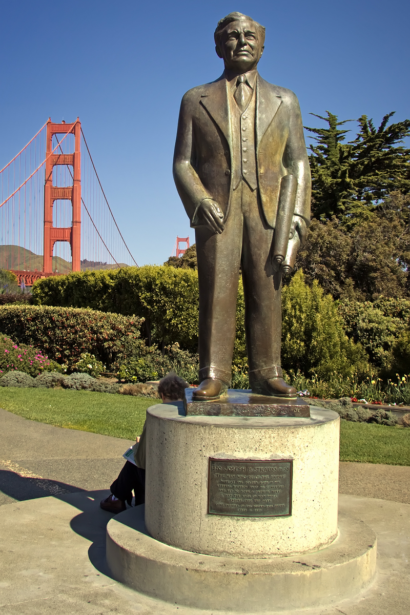 Joseph Strauss (chief designer of the Golden Gate Bridge) Memorial, San Francisco, California. Artist: Frederick William Schweigardt (1885–1948) A plaque on the base of the statue reads: 1870 JOSEPH B. STRAUSS 1938 "THE MAN WHO BUILT THE BRIDGE" HERE AT THE GOLDEN GATE IS THE ETERNAL RAINBOW THAT HE CONCEIVED AND SET TO FORM A PROMISE INDEED THAT THE RACE OF MAN SHALL ENDURE UNTO THE AGES. CHIEF ENGINEER OF THE GOLDEN GATE BRIDGE 1929 - 1937 Smithsonian American Art Museum's Art Inventories Catalog: Control number CA000982